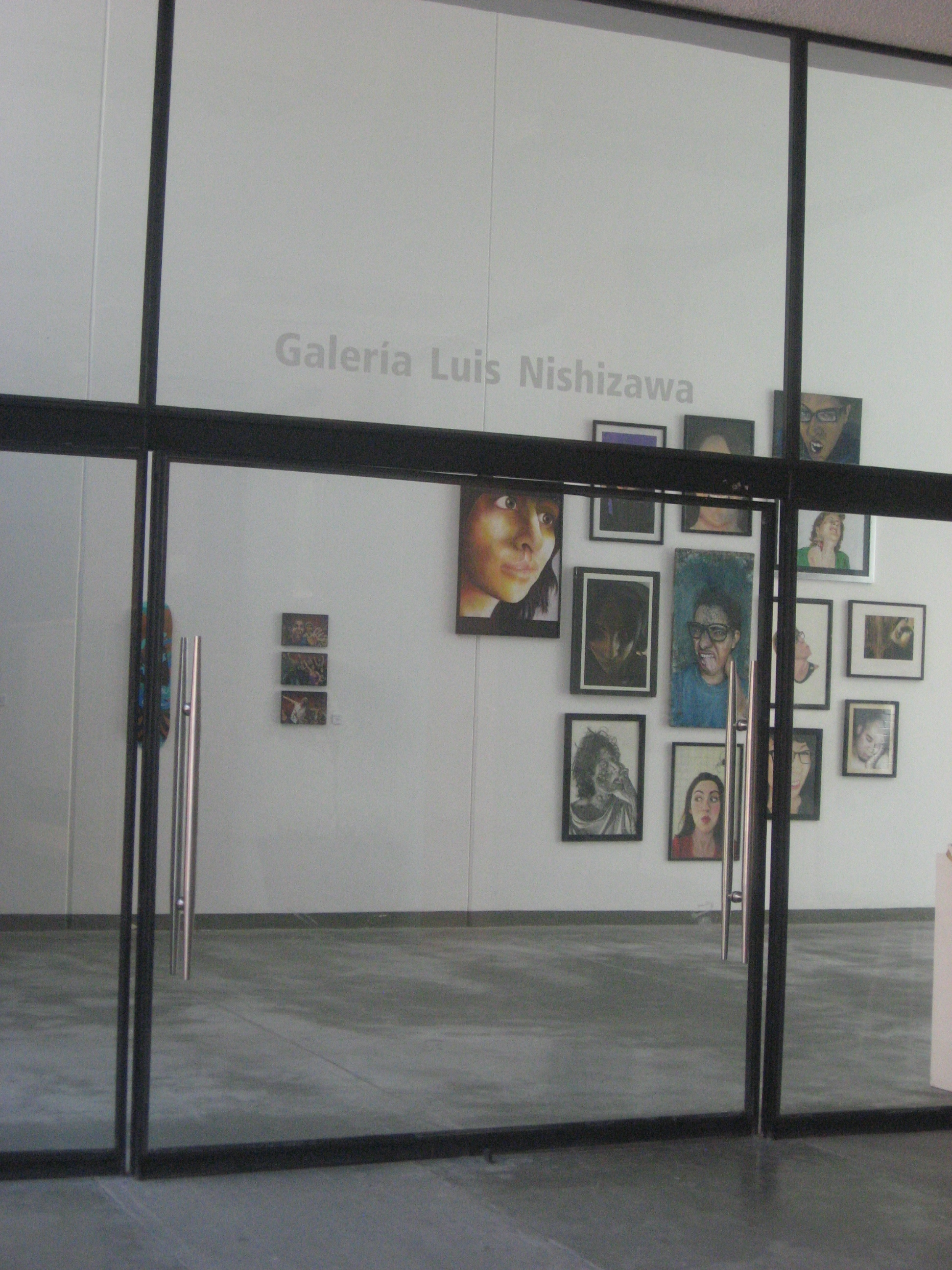 enap2